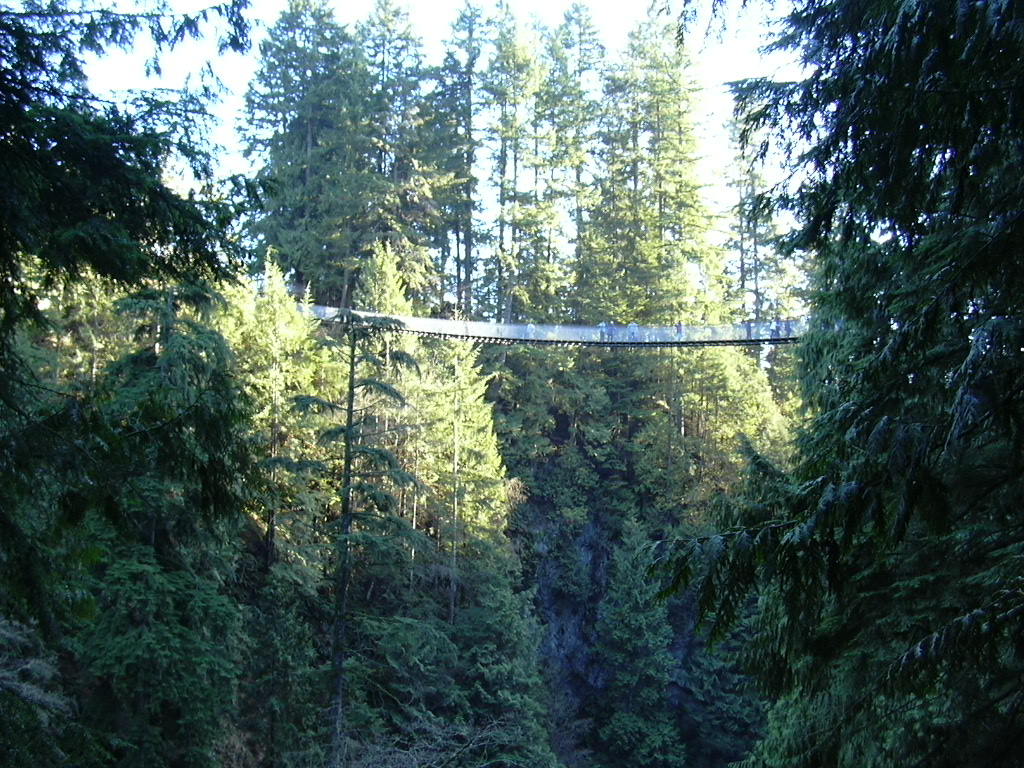 Capilano Suspension Bridge, Canada.